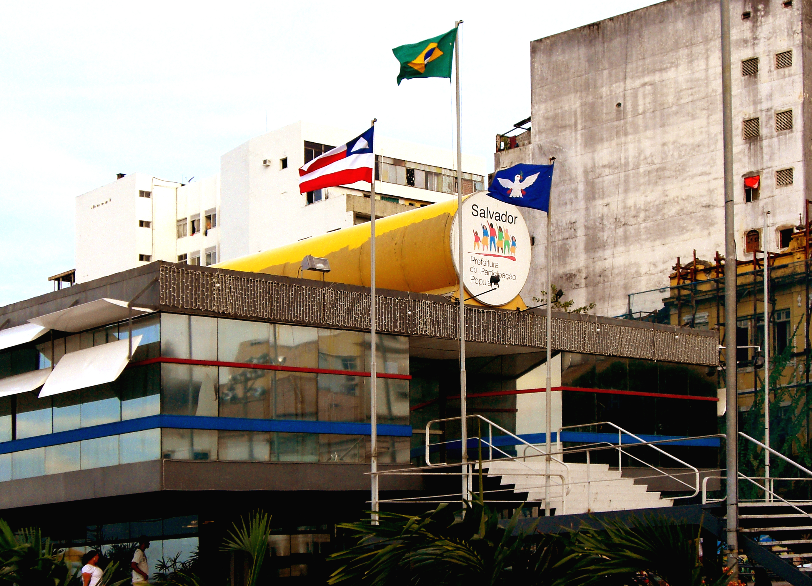 Salvador Town Hall's main entry, designed by Lelé. Picture derived from Image:CIMG0592.JPG.